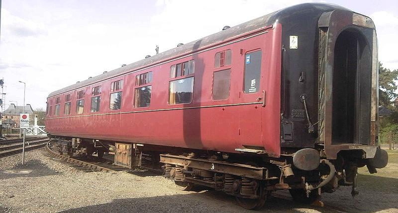 Prototype British Railways Mk2 coach 13252